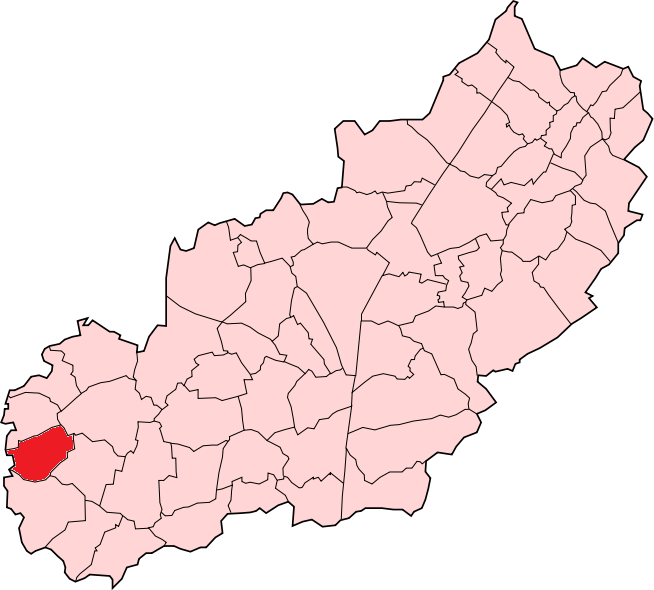 Rushcliffe district map showing the parish of Kingston-on-Soar.